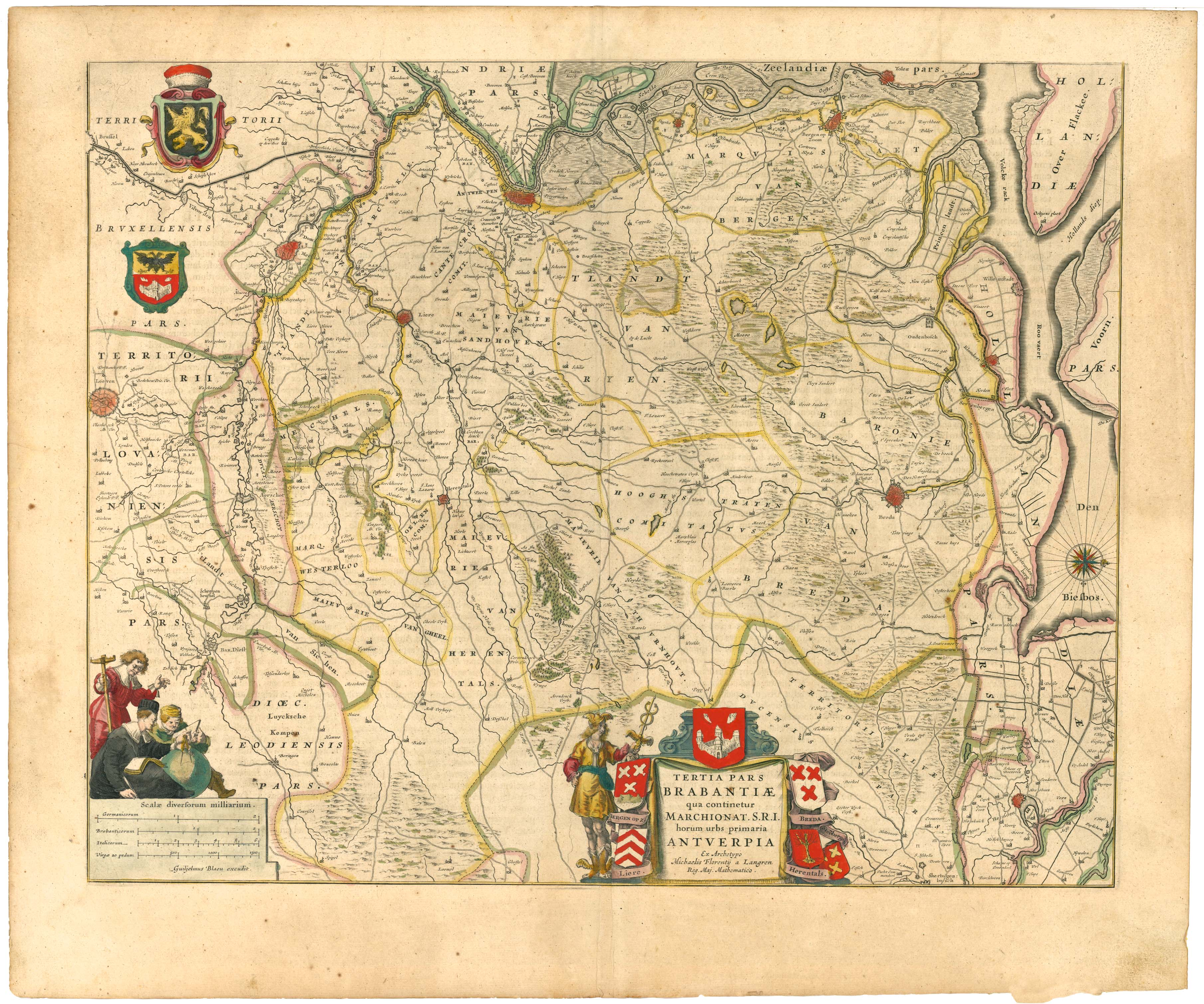 Tertia pars Brabantiæ qua continetur Marchionat S.R.I. horum urbs primaria Antverpia (Third part of Brabant, in which is contained the Marquisate of the S.R.I. [Sacrum Romanum Imperium, the Holy Roman Empire] and whose primary city is Antwerp) from "Theatrum Orbis Terrarum, sive Atlas Novus in quo Tabulæ et Descriptiones Omnium Regionum, Editæ a Guiljel et Ioanne Blaeu" (Theater of the World, or a New Atlas of Maps and Representations of All Regions, Edited by Willem and Joan Blaeu), 1645.